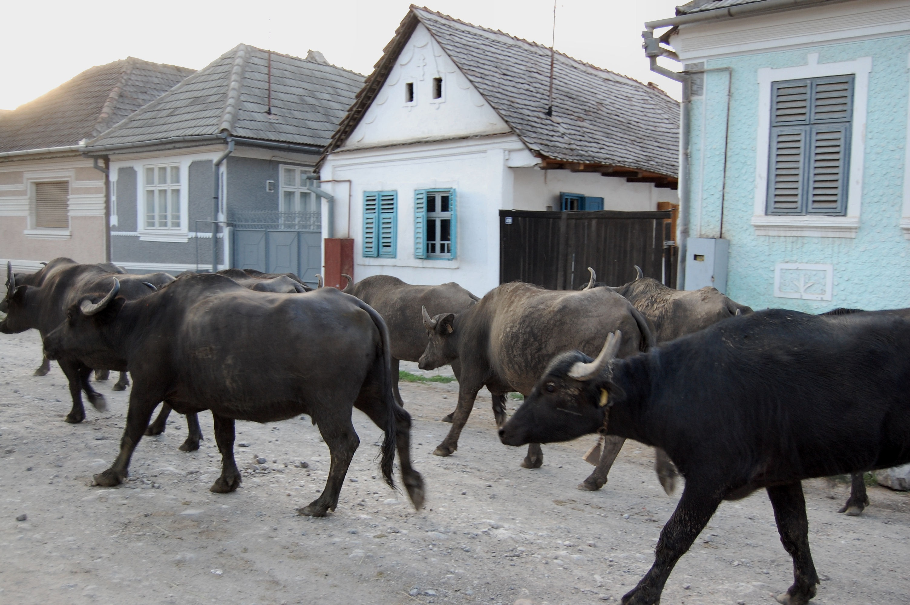 Cuciulata village, Romania